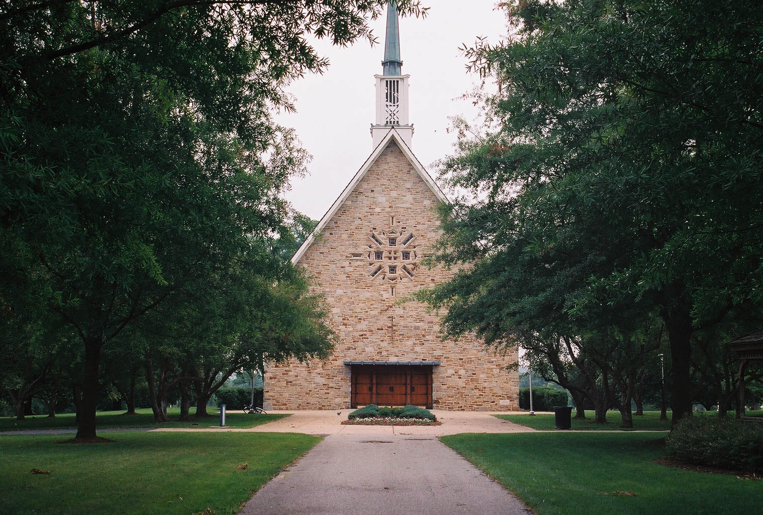 The Goucher College Haebler Memorial Chapel.